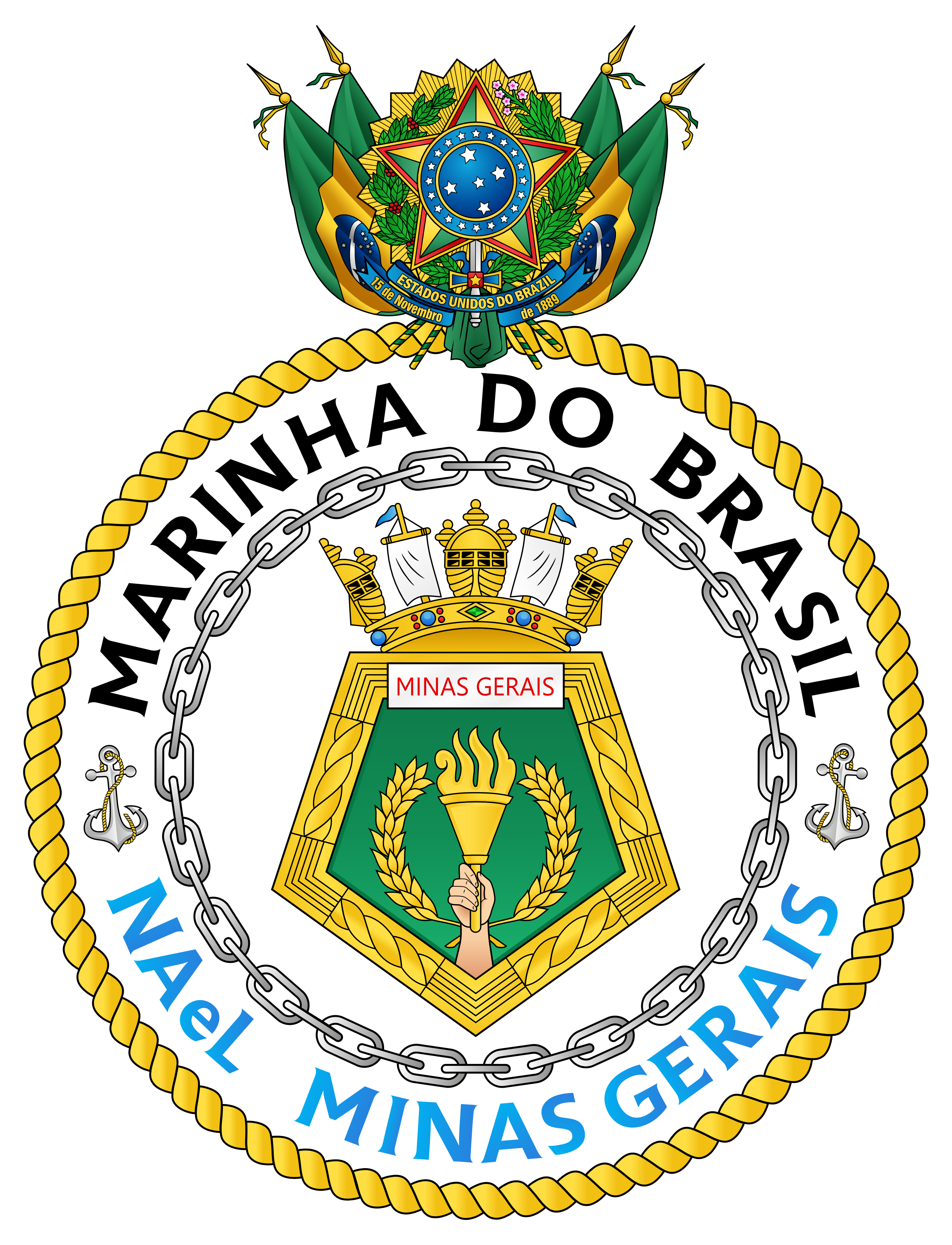 Seal of NAeL Minas Gerais (A-11)